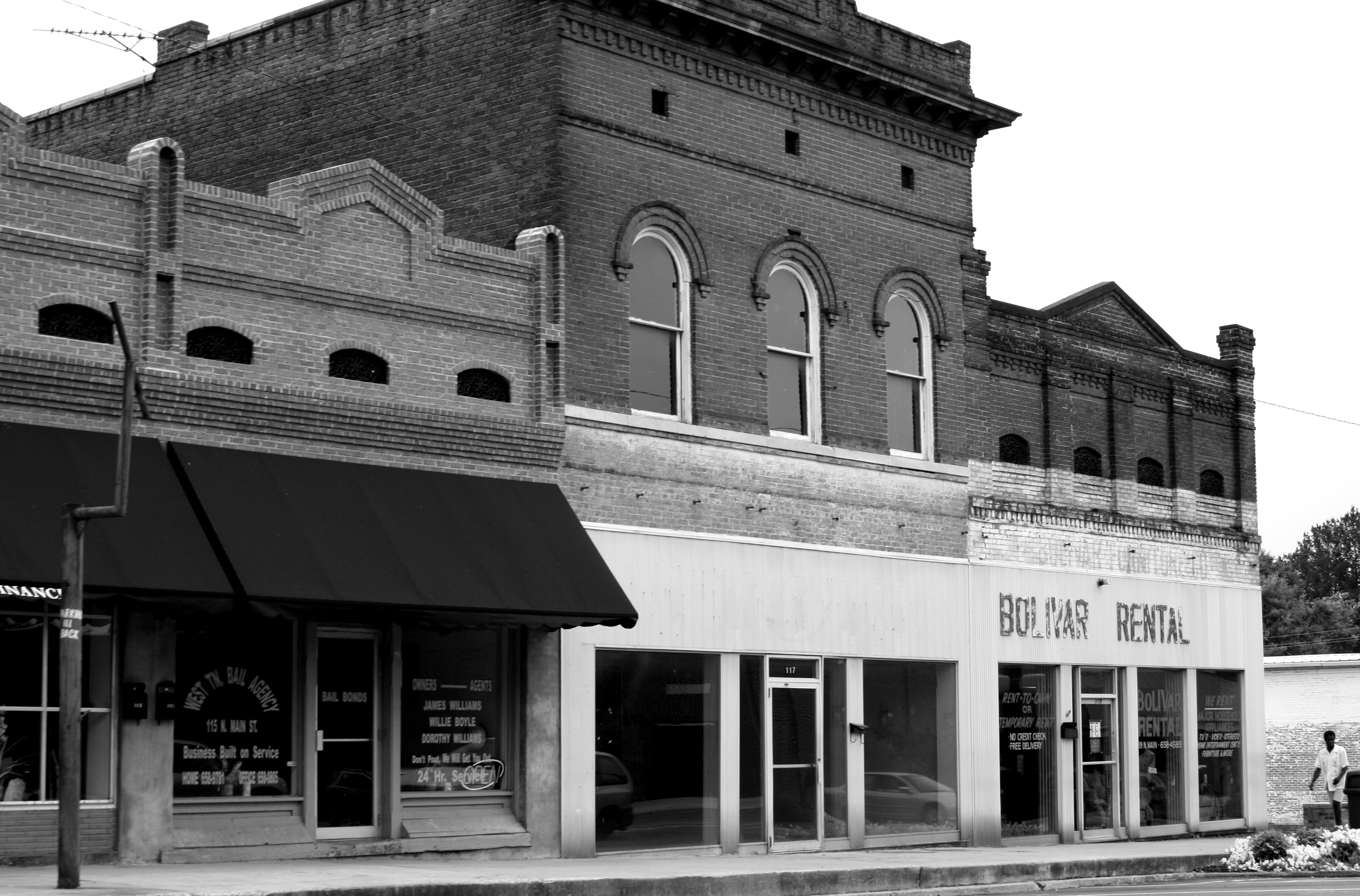 Town Square of Bolivar, Tennessee, United States